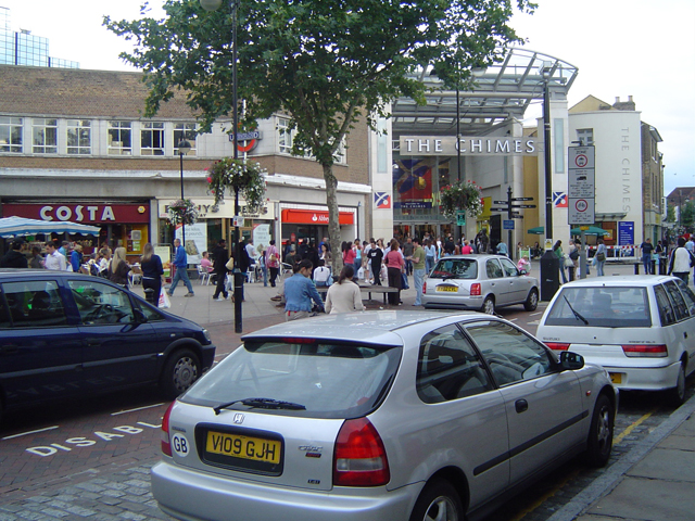 A view of The Chimes mall and Costa Coffee in Uxbridge, Hillingdon. Photography: Omernos